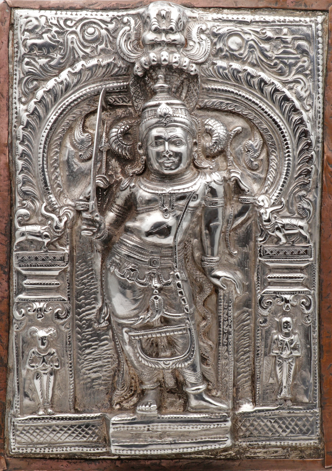 Virabhadra silver plaque. This 19th Century silver plaque depicts the god Shiva in his most powerful form, the four-armed wrathful Virabhadra. See image notes for explanation of the depiction and Hindu symbols. 1. Virabhadra stands in front of an elaborate torana (archway) 2. He is barefoot 3. He has the third eye on his forehead Virabhadra carries: 3. a sword in his right hand 4. an arrow in his second right hand 5. a bow in his second left hand 6. His left hand leans on his shield Virabhadra wears: 7. ear rings 8. elaborate jewellery round his neck 9. ankle amulets 10.a headdress topped with a Shiva linga 11.A cobra is wrapped around his thighs At the top of the plaque, there are symbols for: 12. Nandi, the bull calf 13. the crescent moon 14. a kirtimukha mask 15. the sun 16. a shiva lingam (shivalinga) 17. Daksha, with his restored ram’s head, is the small figure on Virabhadra’s right 18. His consort Bhadrakali is on his left. Their hands are in anjali mudra, the prayer position. These plaques are used in Shaivite worshipThe silver plaque is backed with copper. It originates from Maharashtra or Karnataka in Southern India. Size 20cm x 14.5cm